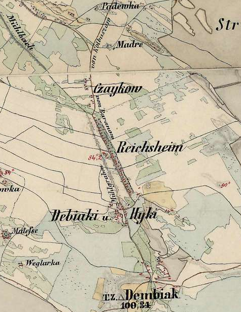 Sarnów (Reichsheim) on an austrian map from around 1855